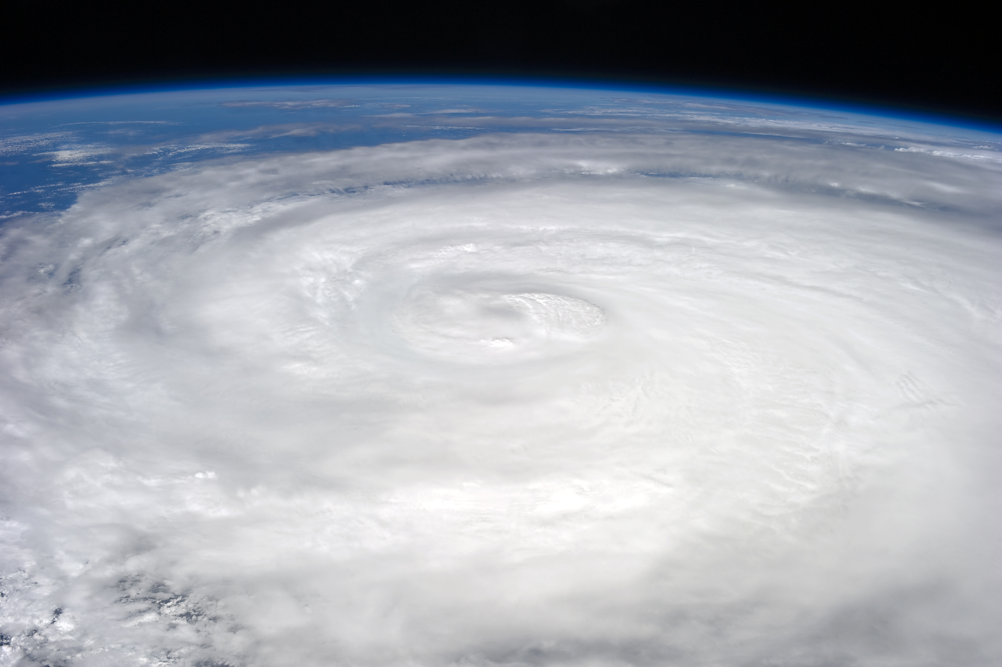 One of the Expedition 36 crew members aboard the International Space Station photographed this image of Typhoon Soulik just east of northern Taiwan in the Pacific Ocean. [Editor's update: Thousands of people were evacuated in Taiwan; and the entire island was declared an "alert zone," as Typhoon Soulik made landfall early on July 13 (local time), pounding the country with powerful winds and heavy rain].